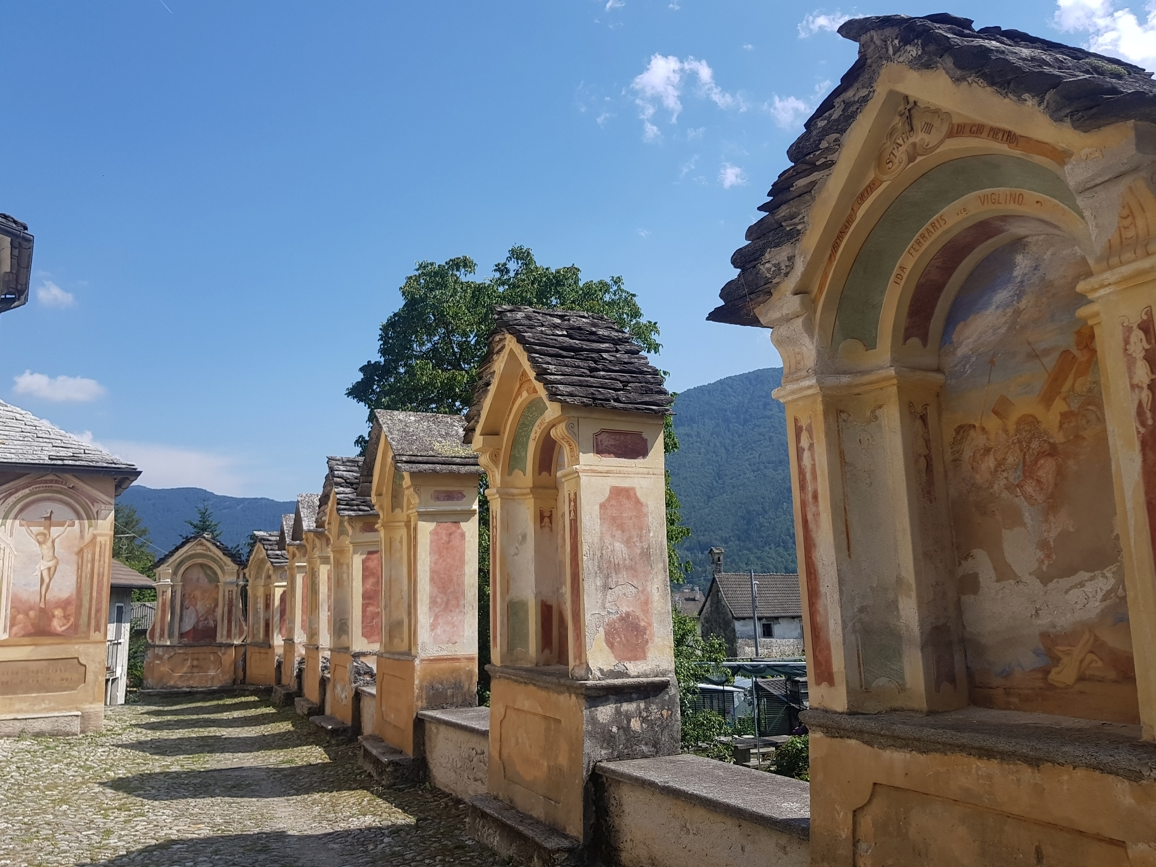 The stations of the via crucis (Sations of the cross) on the outside of the church of the village os Zornasco. The stations are painted, which is not rare in this area. The alpine valley Val Vigezzo is in fact called the valley of the painters. The little village Zornasco is part of the municipality of Malesco in the province VCO in the region Piedmont in northen Italy. The picture was taken on the 29th of july 2020. 2020-07-29